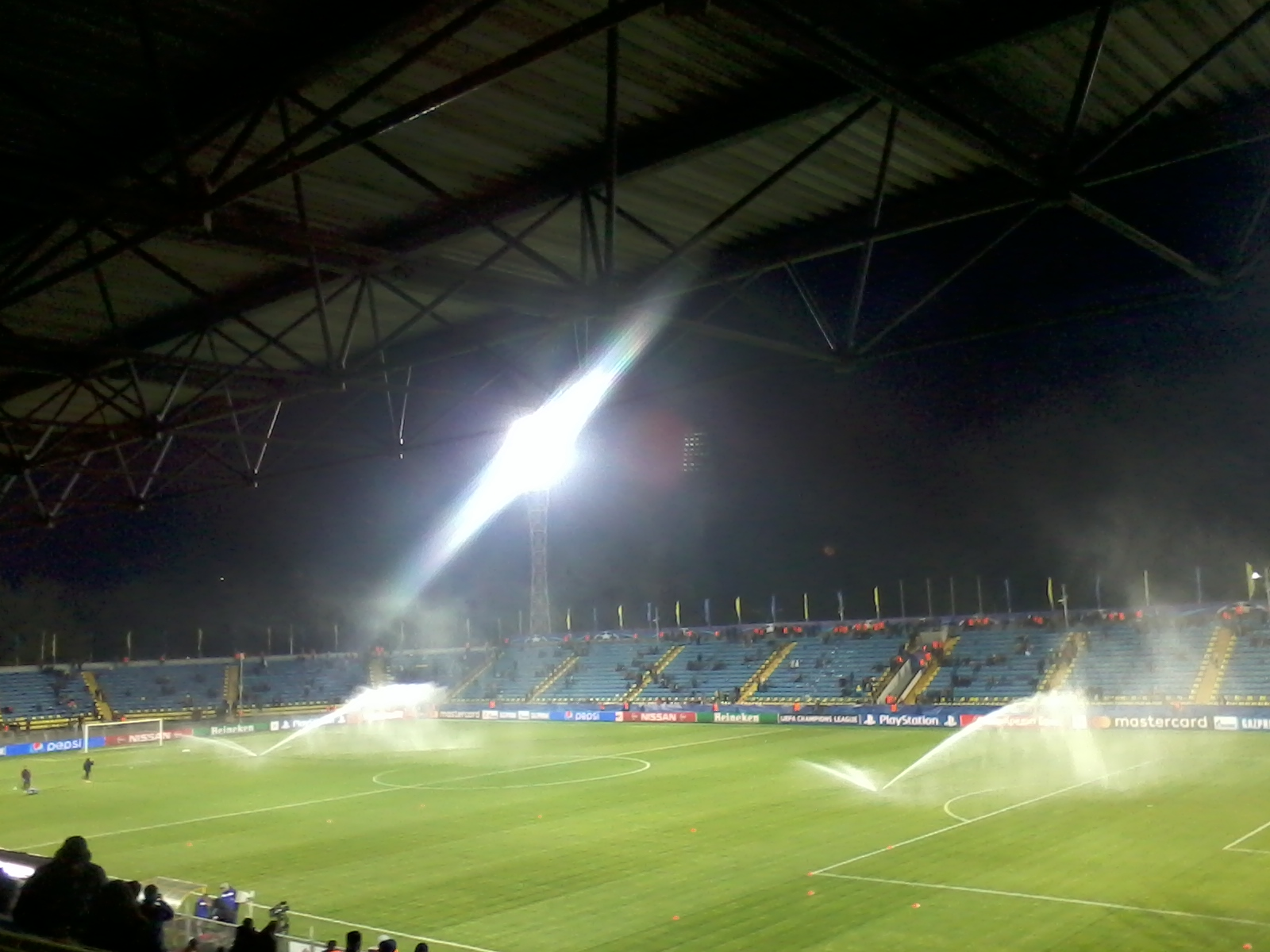 Olimp-2 Stadium in Roston-on-Don. The photo was taken on October 19, 2016, before the game of matchday 3 between FC Rostov and Atlético Madrid. Camera was set on the West tribune, at the sector Z-1 (Russian "З-1")